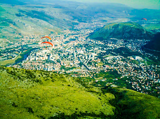 Panorama photo of Mostar